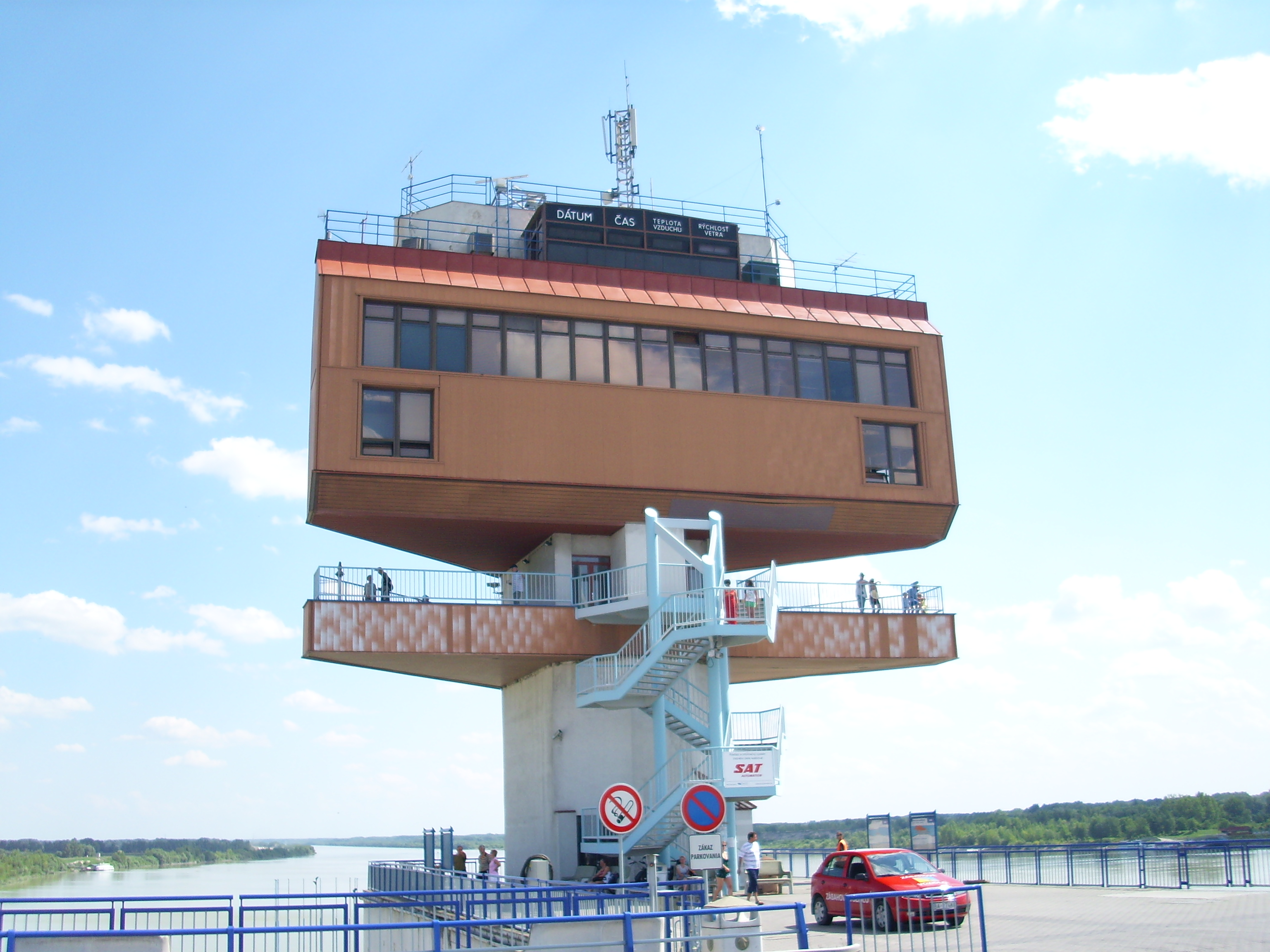 Gabčíkovo – Nagymaros Dams control tower